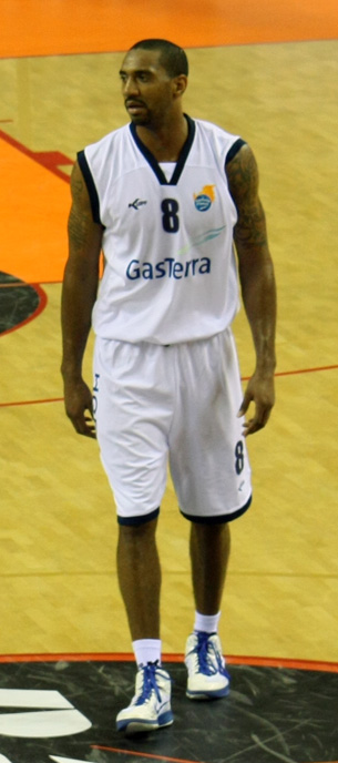 Jason Dourisseau, American basketball player